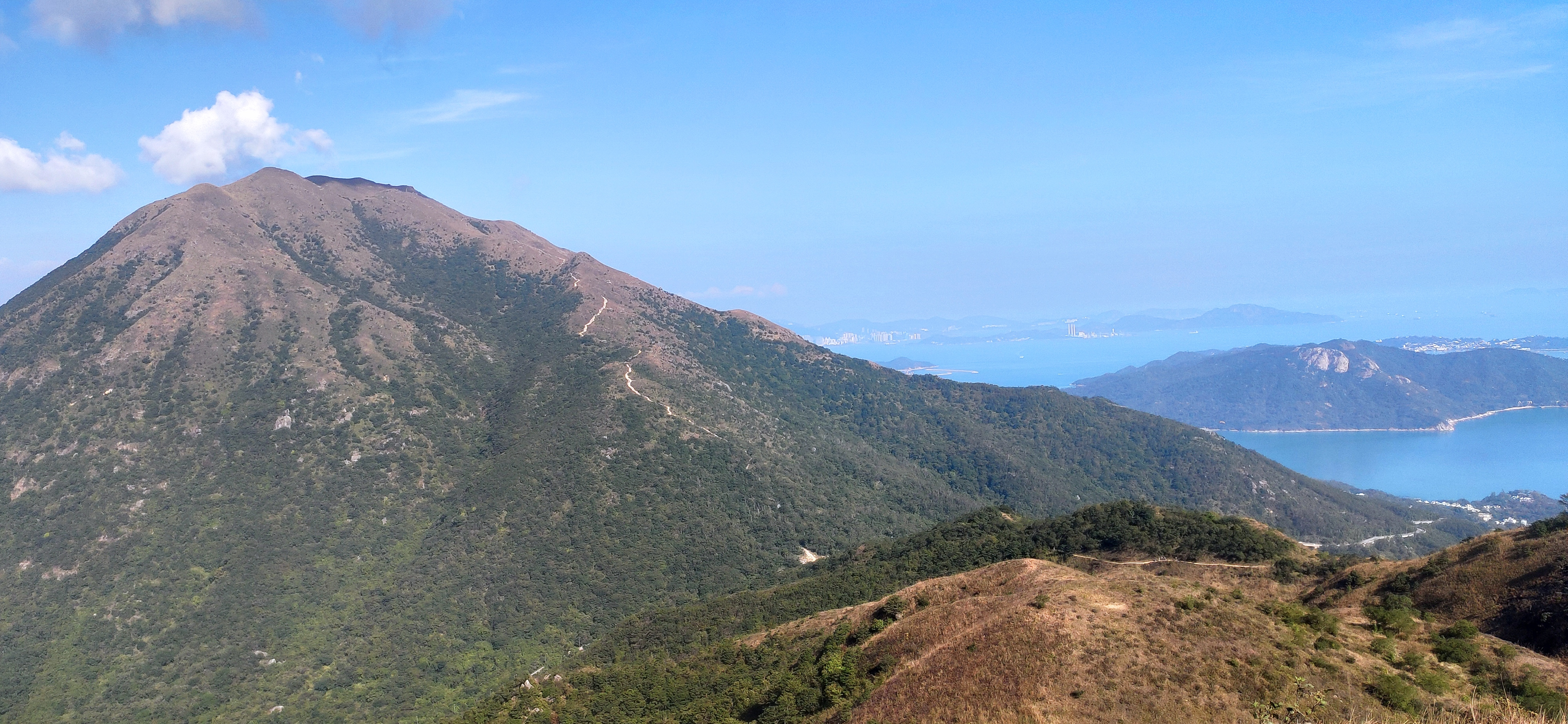 Sunset Peak on a Sunny Day